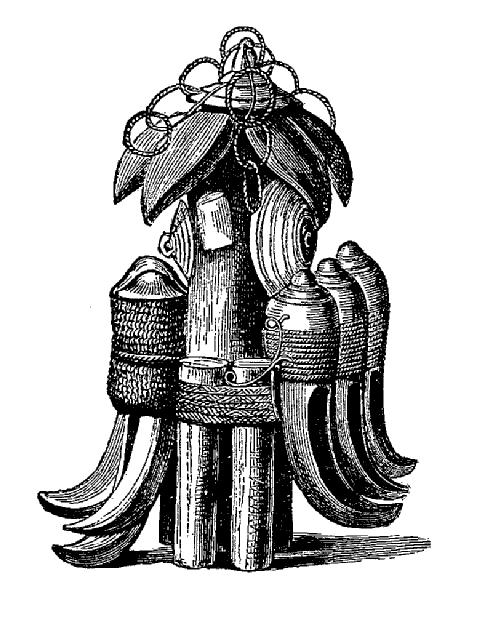 Illustration of a royal idol (sampy) of the Kingdom of Imerina, Madagascar